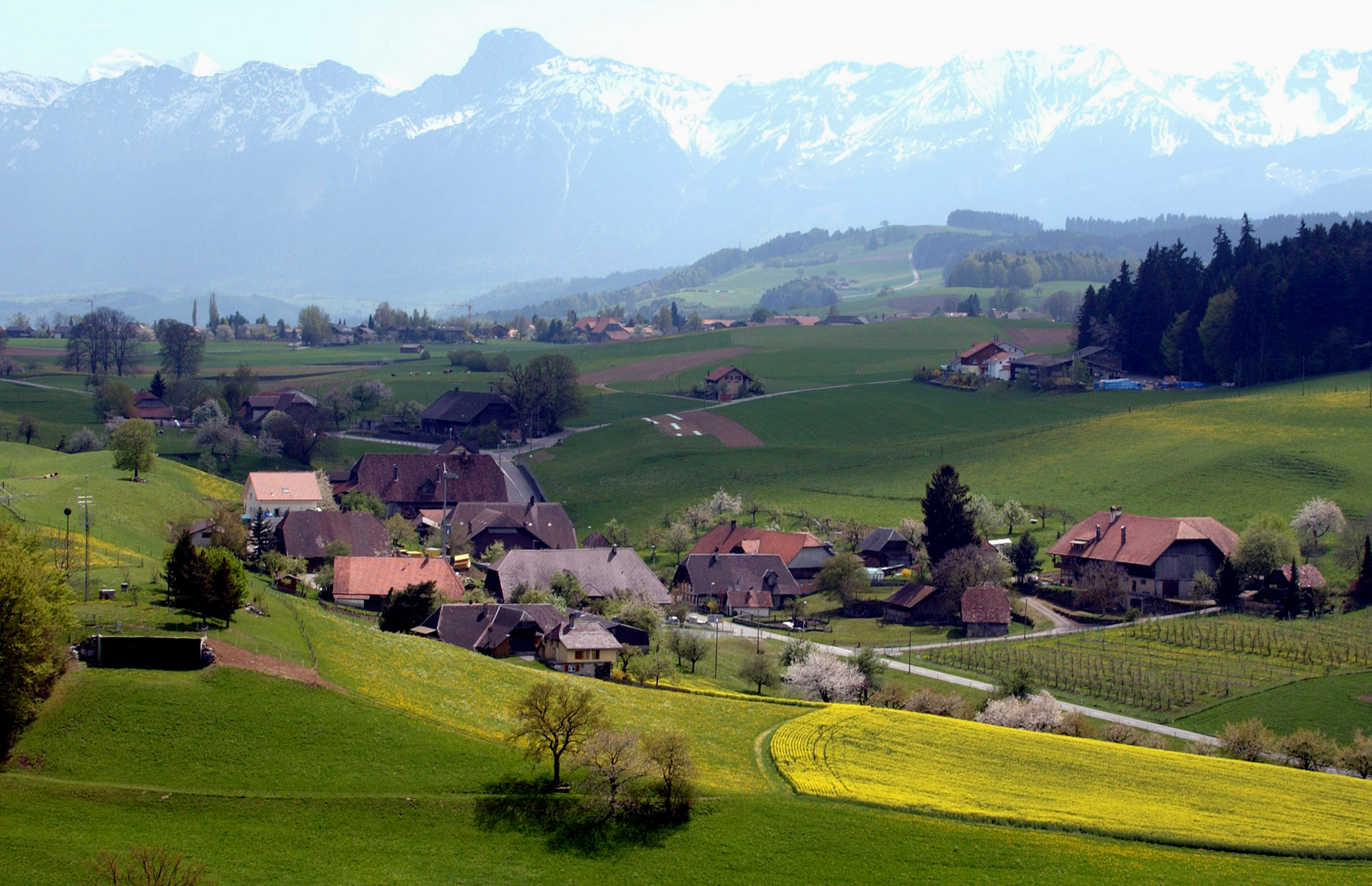 Englisberg und Zimmerwald with Gantrisch mountain range in the background